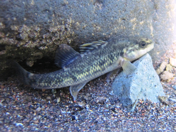 Chile, Río Bío-Bío en balseo Callaqui. 263638.60 m E - 5808966.30 m S - Huso 19. 356 m.s.n.m.